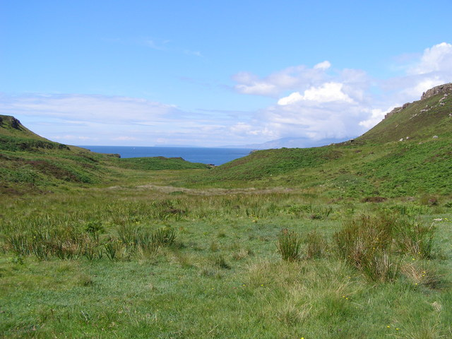 Gleann Mhairtein Gleann Mhairtein, Isle of Muck, looking north-west. The islands of Canna and Rum can be seen on the horizon.